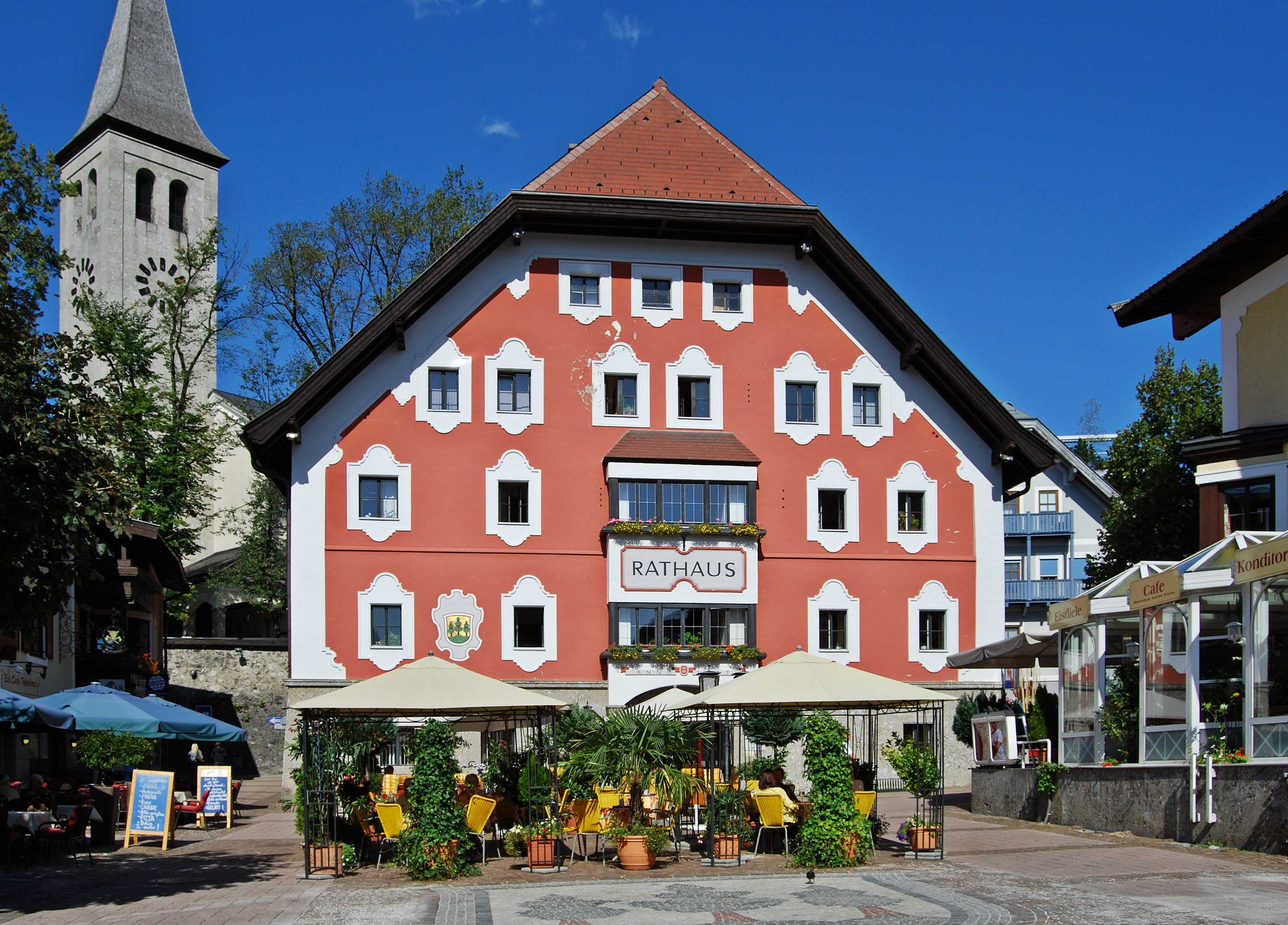 The town hall of Saalfelden, Austria.